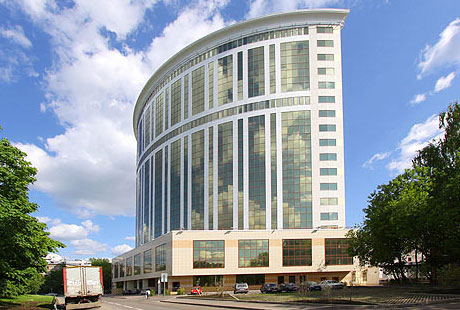 Photo of Alexeevskaya Tower